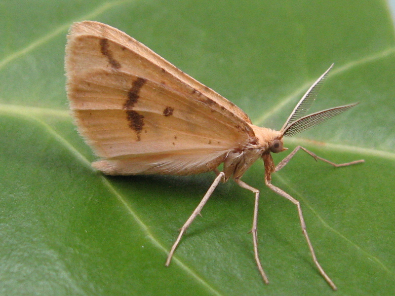 Aspitates ochrearia. Location: The Netherlands - Ossenisse - Noordhofpolder